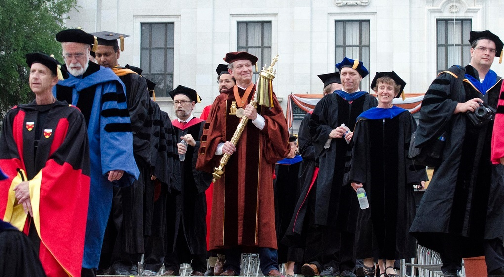 Professors in academic dress participating in a ceremony